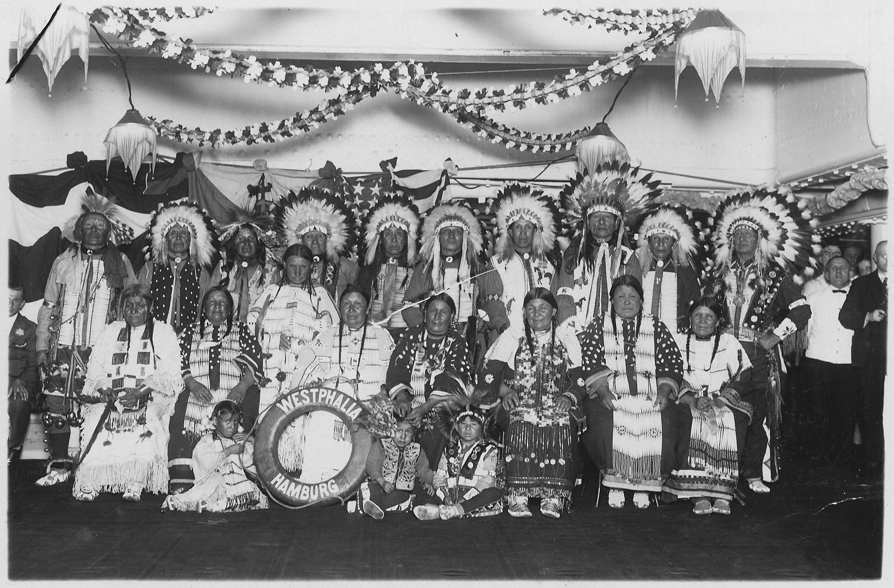 Scope and content: A group photo of Indians on board the steamship Westaphalia; Mark Spider & Sam Lone Bear stand before a tipi. John Milk and family stand before a tipi. All persons are in full performance dress.